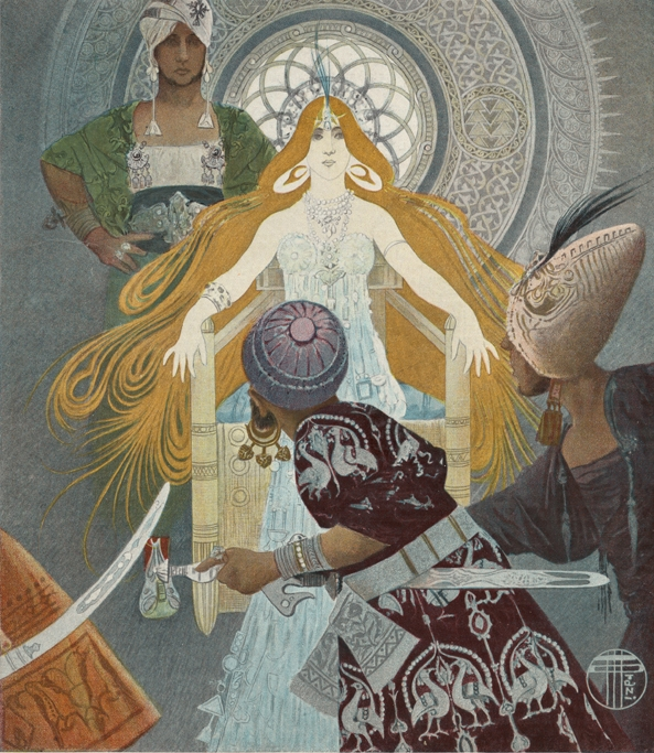 Illustration for La Belle sans nom ["The Nameless Beauty"], a short story by Jean Rameau (1858-1942) published in Le Figaro illustré in January 1900.